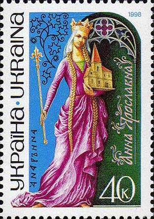 Stamp of Ukraine